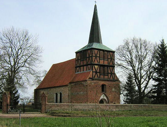 Church in Mönchow an Usedom island, Mecklenburg-Vorpommern, Germany